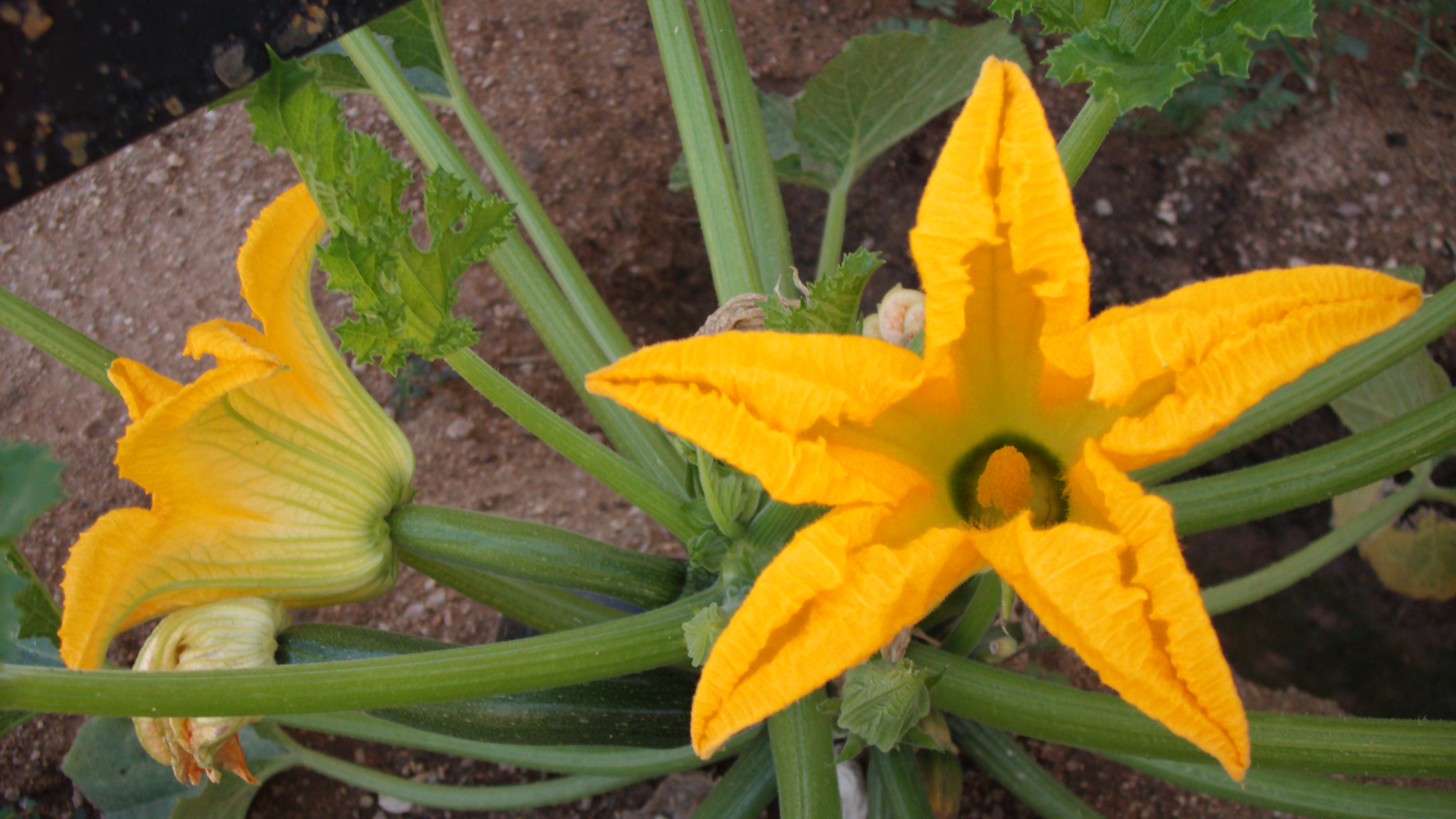 Flower of the zucchini plant.